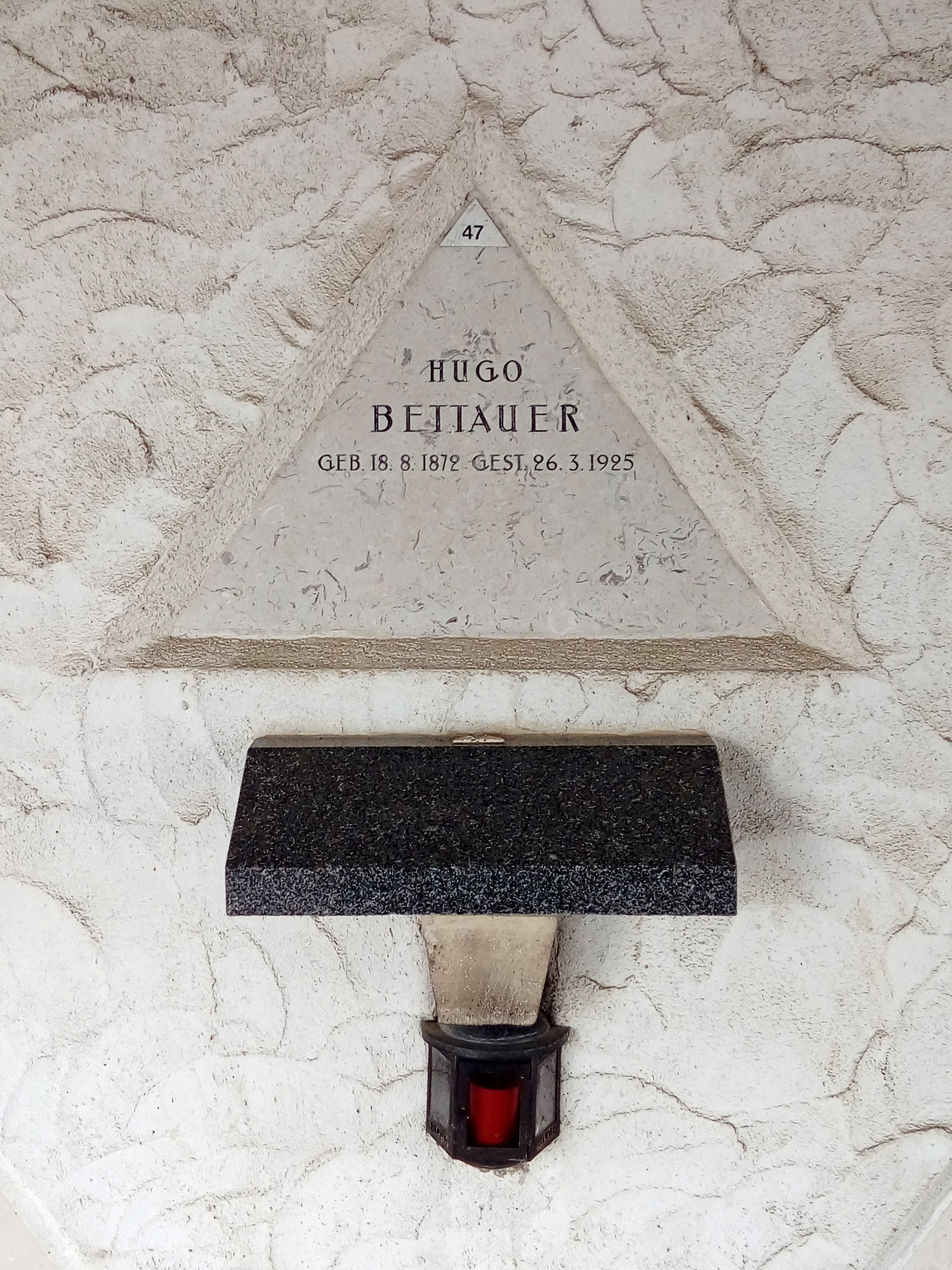 Urn grave of the writer Hugo Bettauer (1872–1925). Feuerhalle Simmering, Vienna